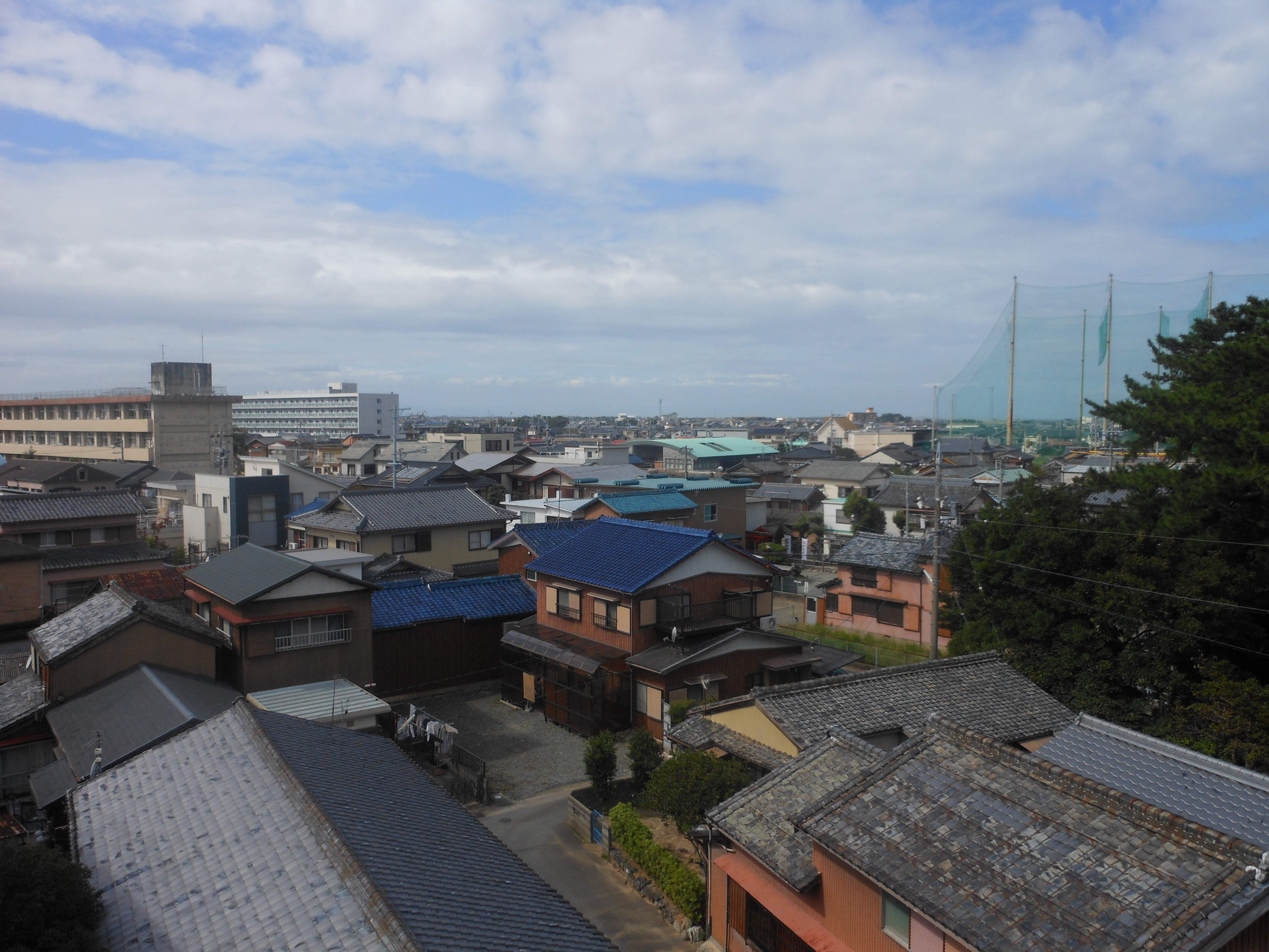 This is a landscape of Kamiyashiroko, Ise city, Mie prefecture, Japan.